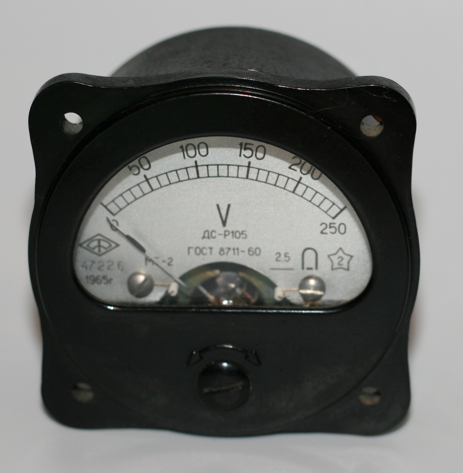 Panel Voltmeter, type M5-2 manufacturer : Elektrotochpribor, Omsk, USSR, year of produce - 1965